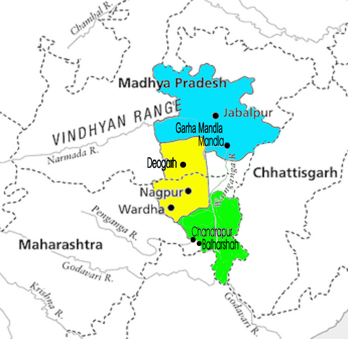 Three gonds kingdoms